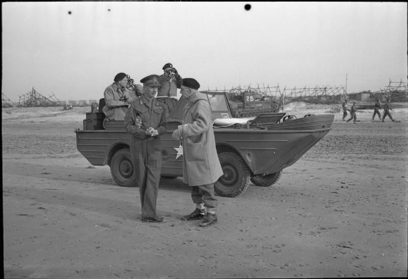 The British Army in the United Kingdom 1939-45 Lieutenant-General Miles Dempsey, GOC-in-C Second Army (left), with Major-General Percy Hobart, GOC 79th Armoured Division, during an invasion exercise, 1 May 1944. A Ford GPA amphibious jeep can be seen behind.